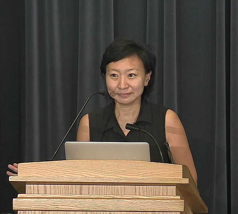 Cathy Park Hong at a "Poetry, Publishing & Race" discussion